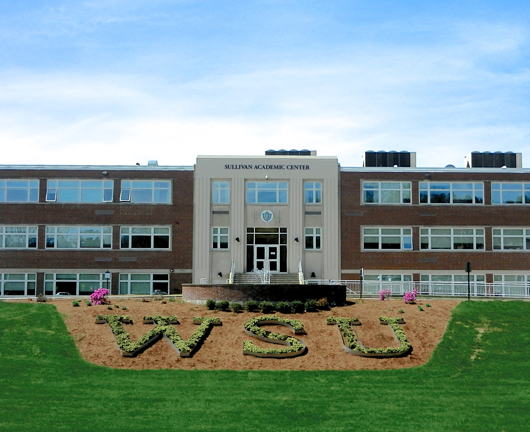 Sullivan Hall, a classroom building on the campus of Worcester State University in Worcester, Massachusetts